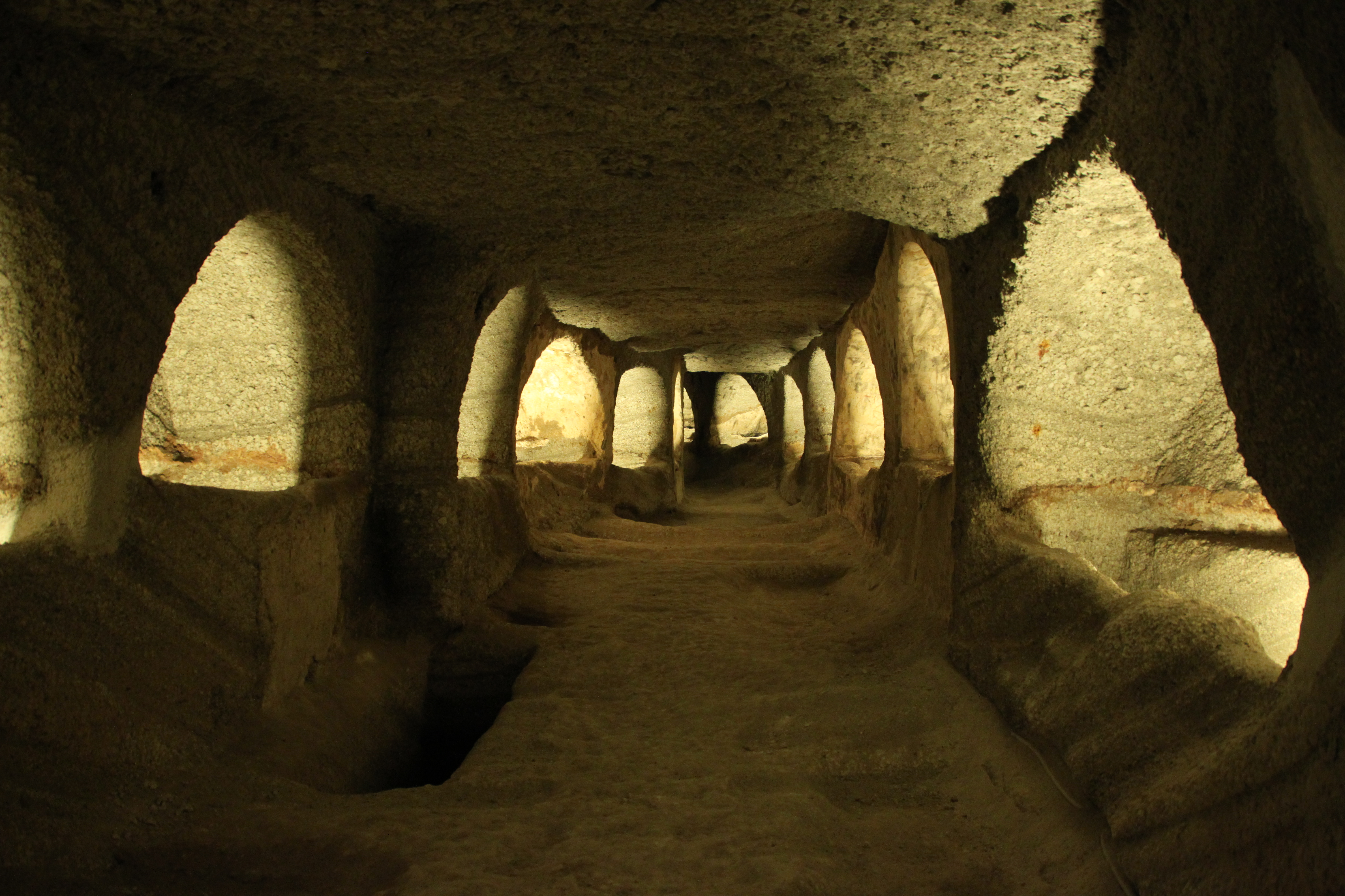 Image from the Catacombs near the village Tripiti of the Greek island Milos. The Catacombs of Milos